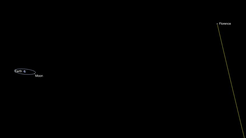 View of asteroid florence passing earth at a distance